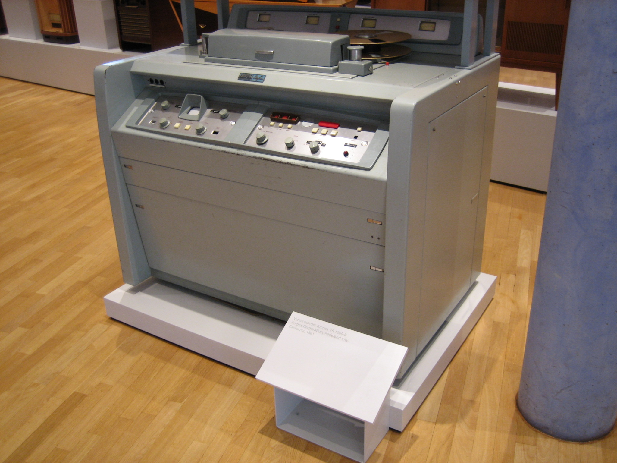 An early type of video recorder. The text on the sign says: Videorecorder Ampex VR 1000-B Ampex Corporation, Redwood City, Californa, 1961 Photo taken at the Museum of Communication in Frankfurt. other versions (including other places) Ampex VR1000A (serial 329) (ca. 1950s) Ampex VR1000A (serial 329) other angle (ca. 1950s) Ampex VR 1000-B (1961)